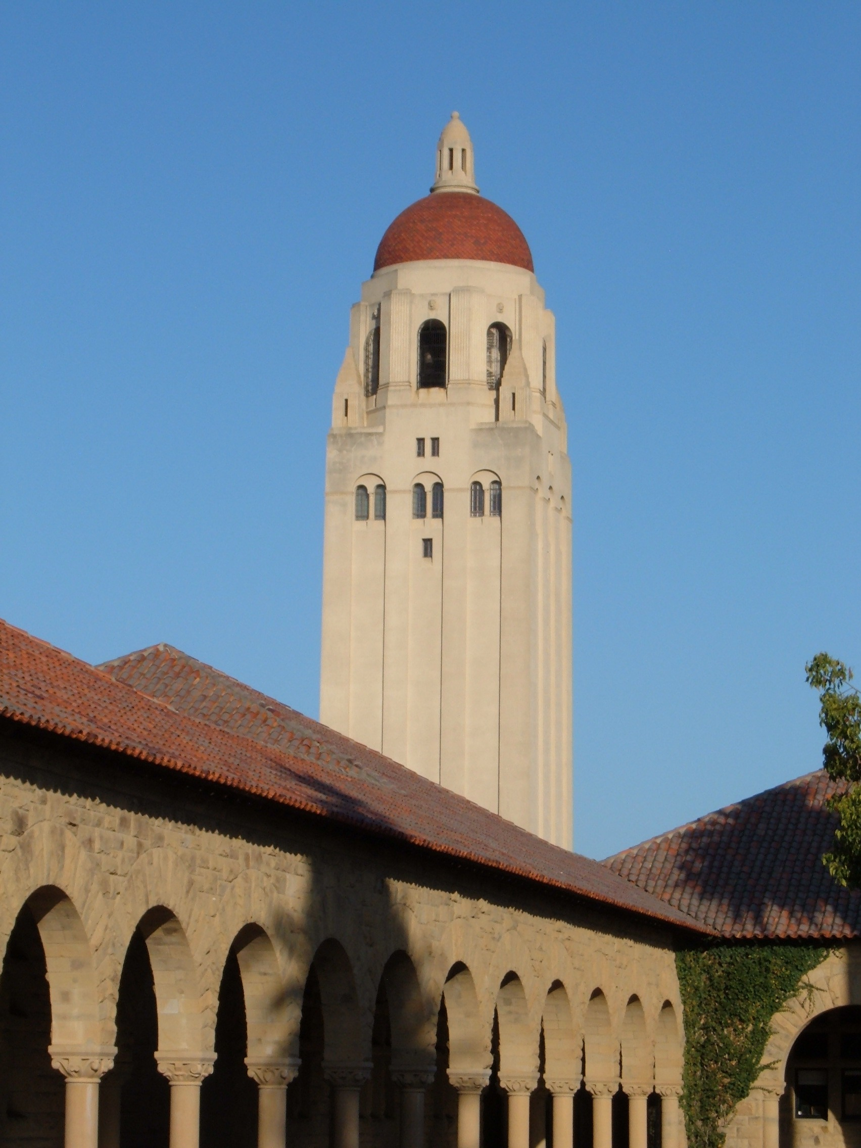 Hoover Tower as seen from the Stanford University Main Quad located on the campus in Stanford, California.